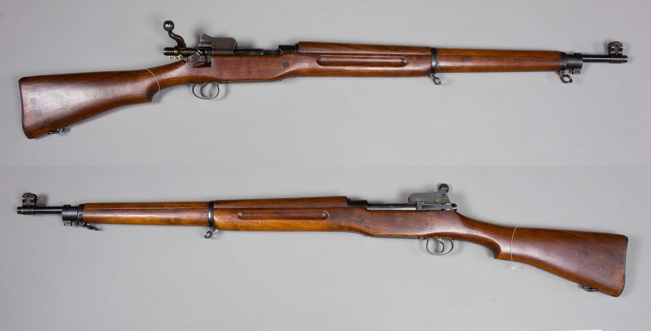 M1917 Enfield, US version of British P14 rifle. Caliber .30-06. From the collections of Armémuseum (Swedish Army Museum), Stockholm.